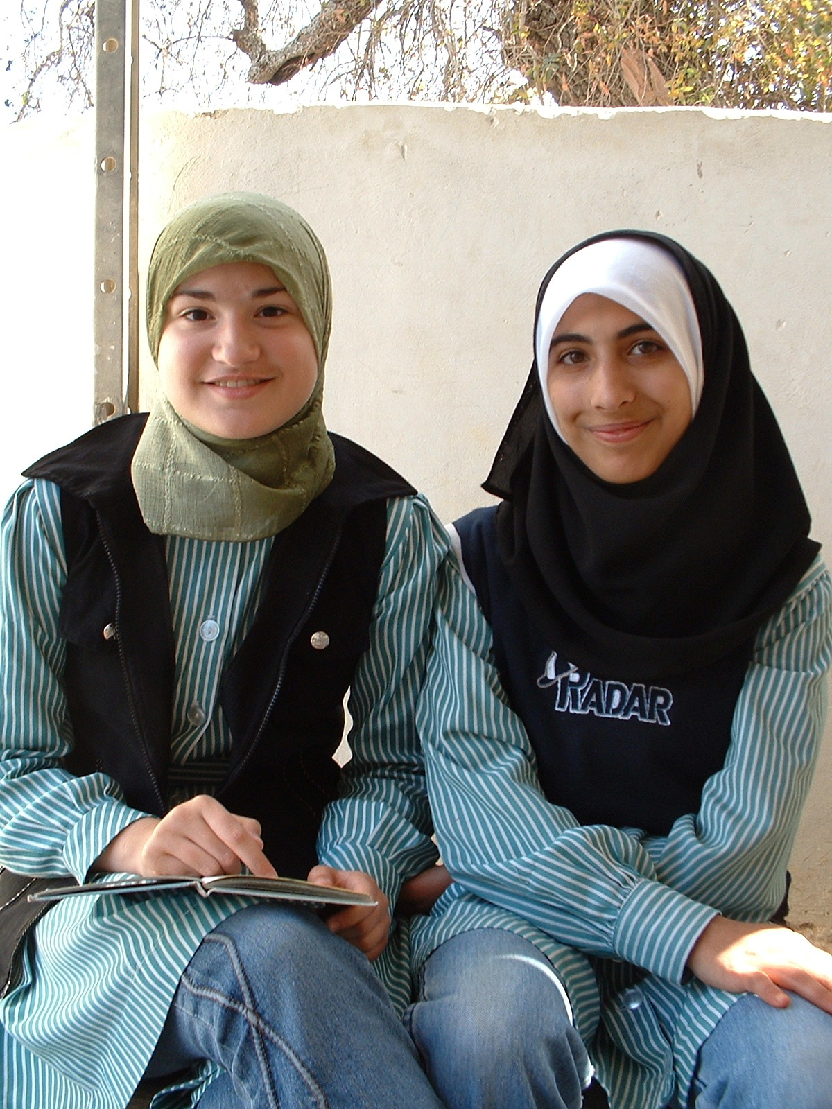 Leila Sarsour with friend Wala. From the documentary Welcome to Hebron